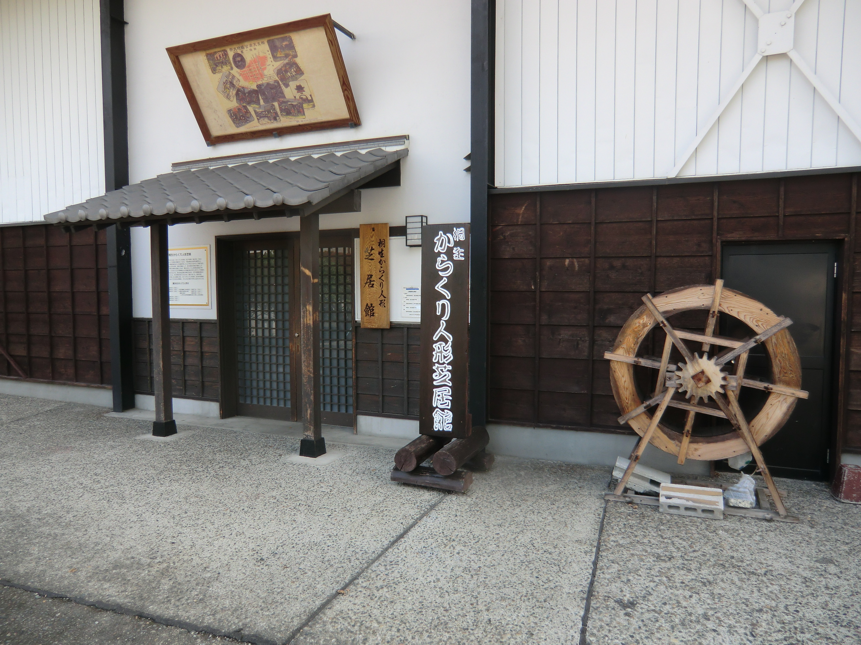 Kiryu Karakuriningyo